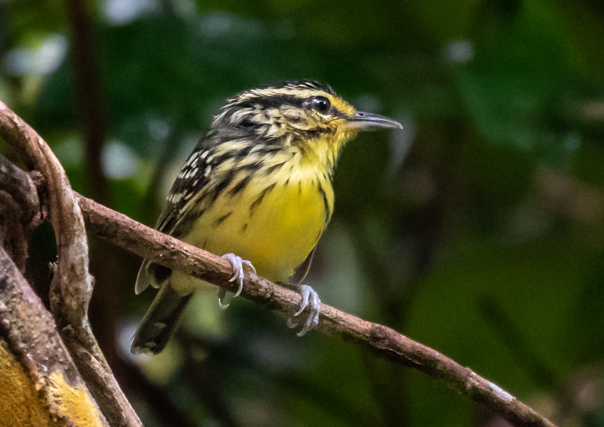 Yellow-browed antbird, Manacapuru, Amazonas, Brazil